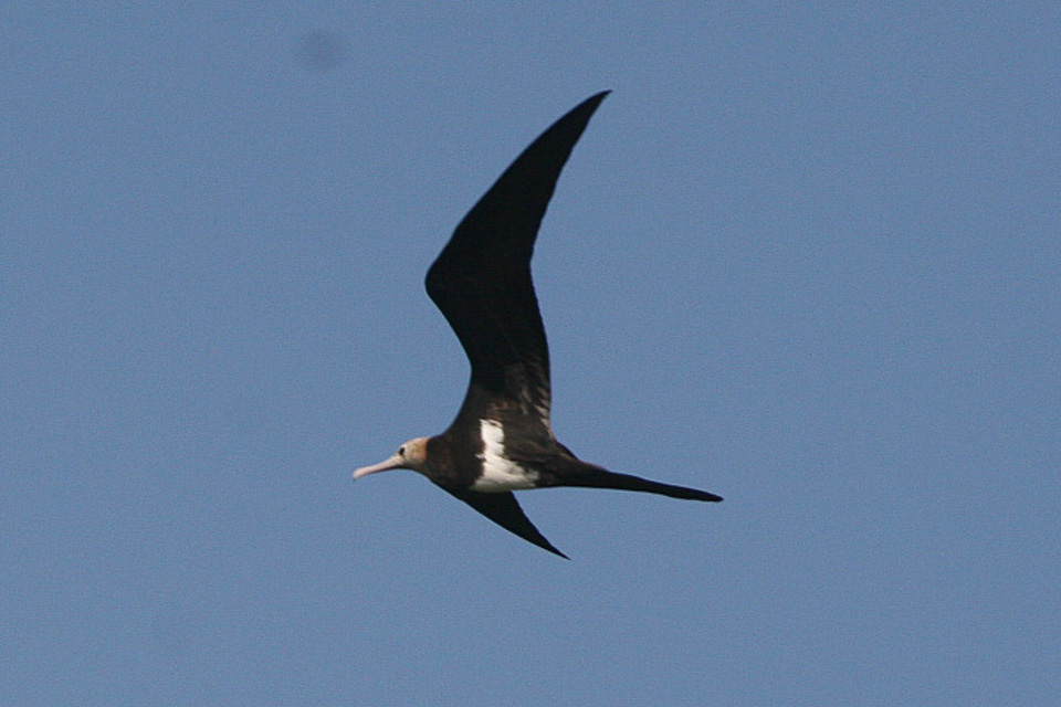 Lesser Frigatebird (Fregata ariel) at Java